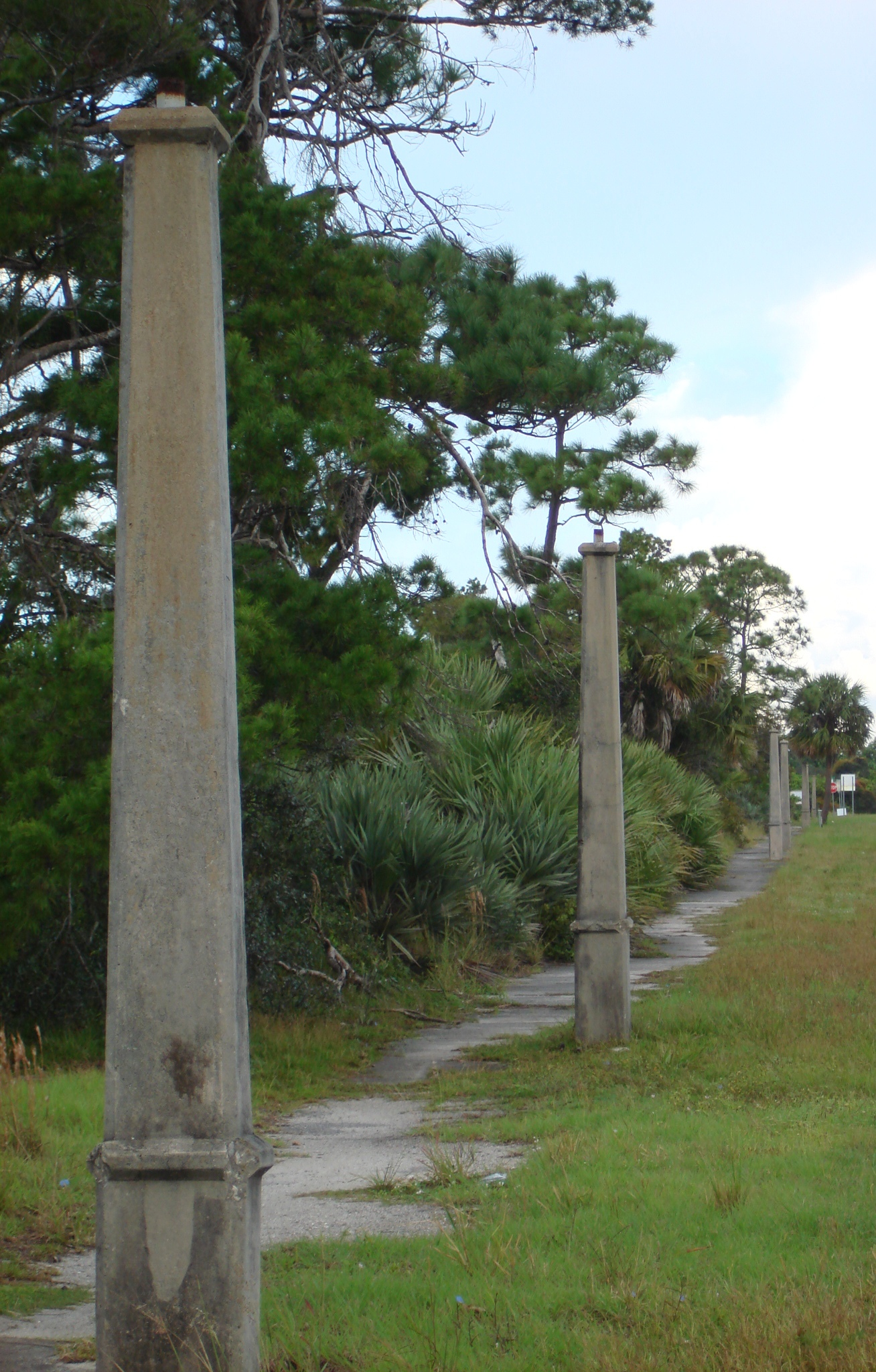 Old lamp posts still standing from the 1920's in Hobe Sound, FL.